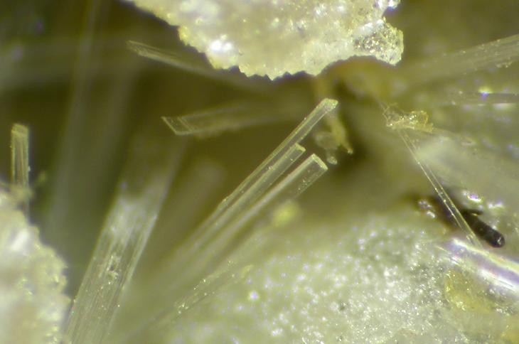 Cervantite Locality: Zlatá Baňa, Northern Slanské Mts, Prešov Region, Slovakia Field of view 3 mm. Specimen and photo Leon Hupperichs.